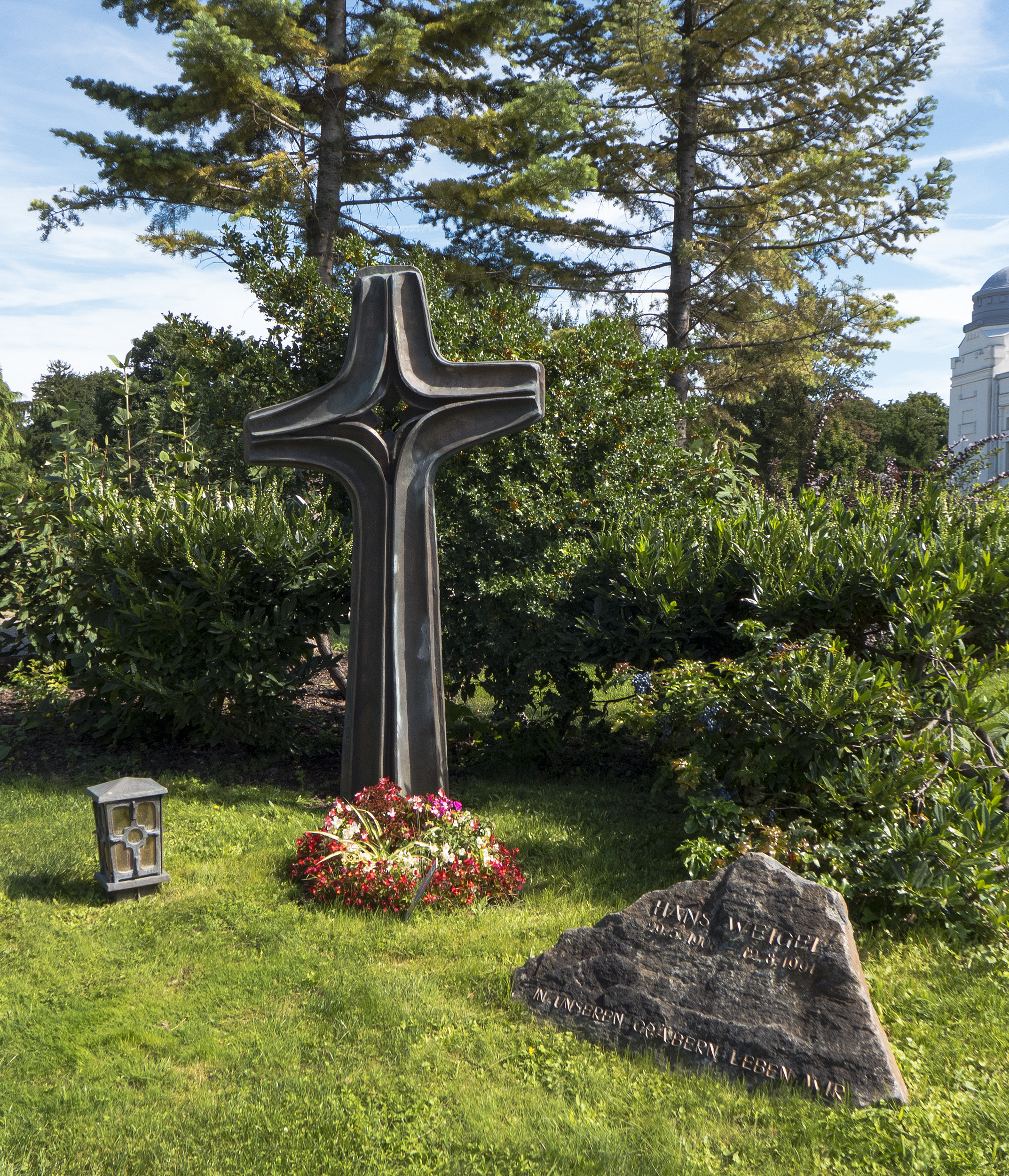 Grave of Hans Weigel at the Zentralfriedhof in Vienna 11